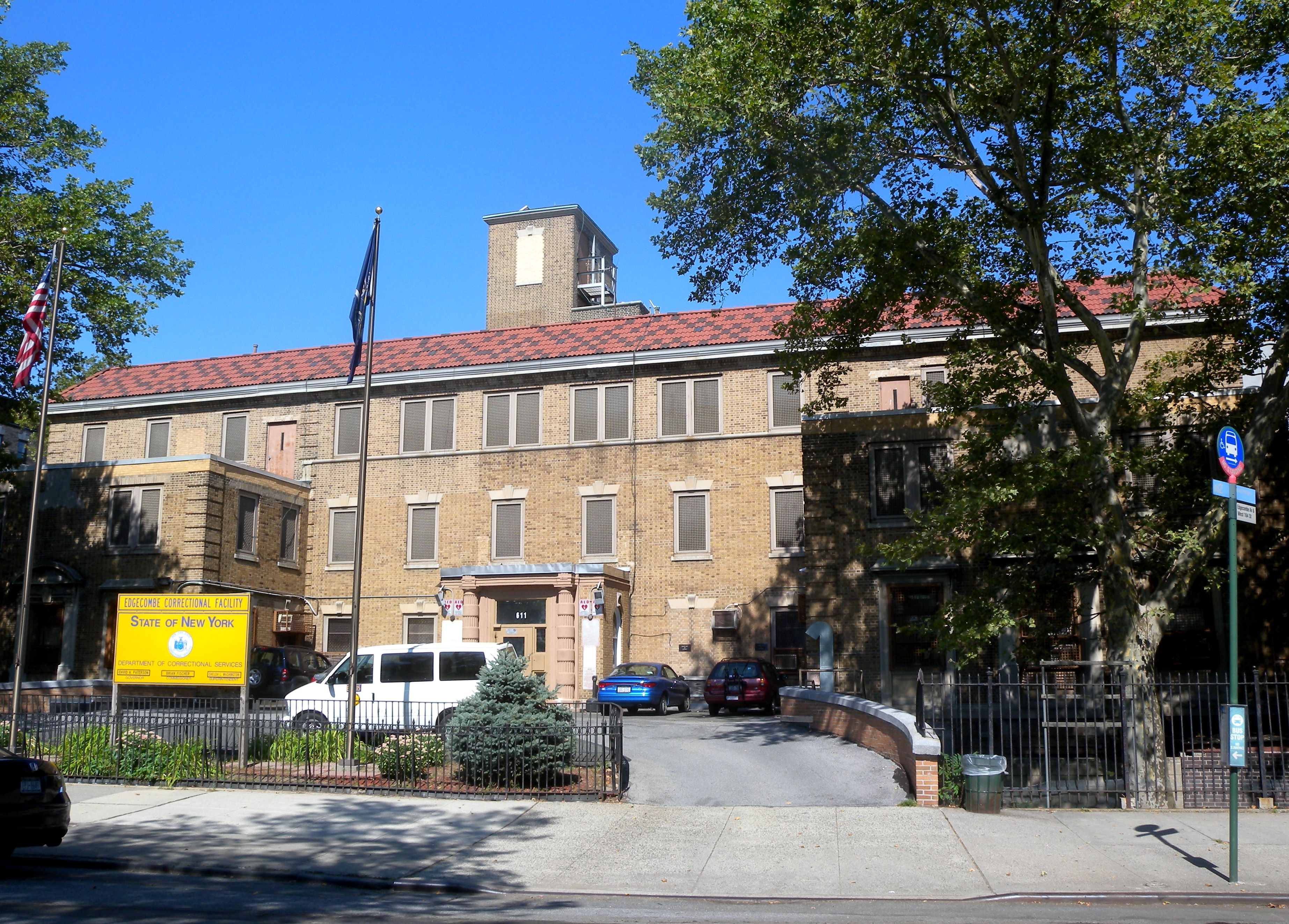 Looking west at 611 Edgecombe Avenue on a sunny morning.